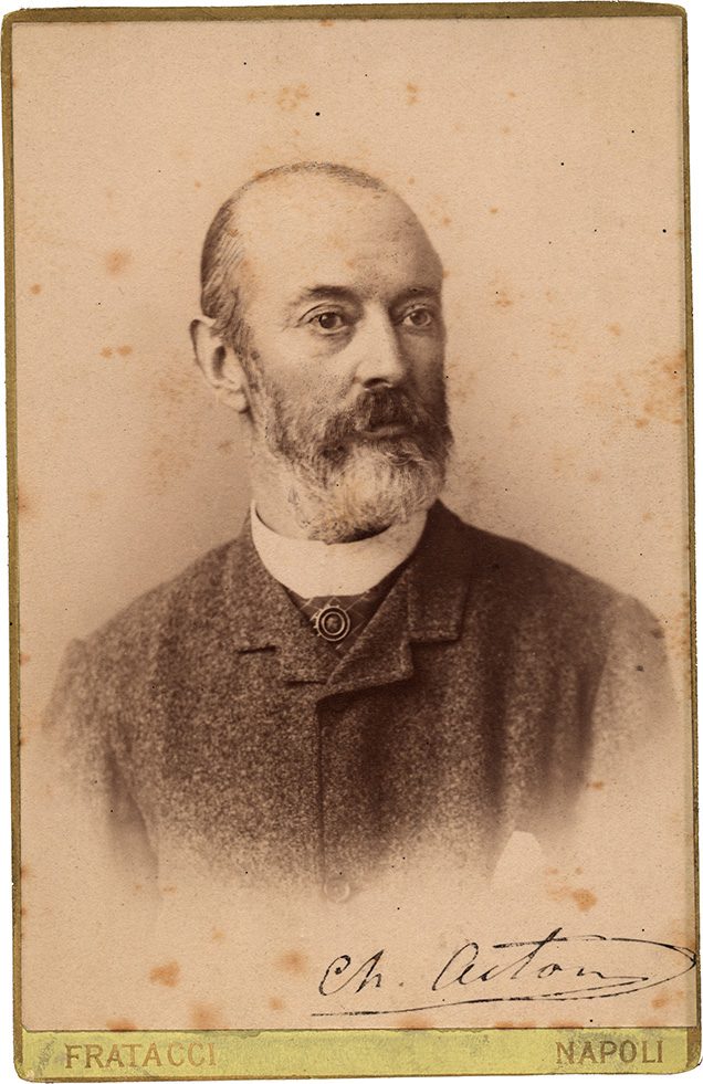 Portrait of Carlo Acton, composer (1829-1909). Photo by Carlo Fratacci, Napoli, before 1909.